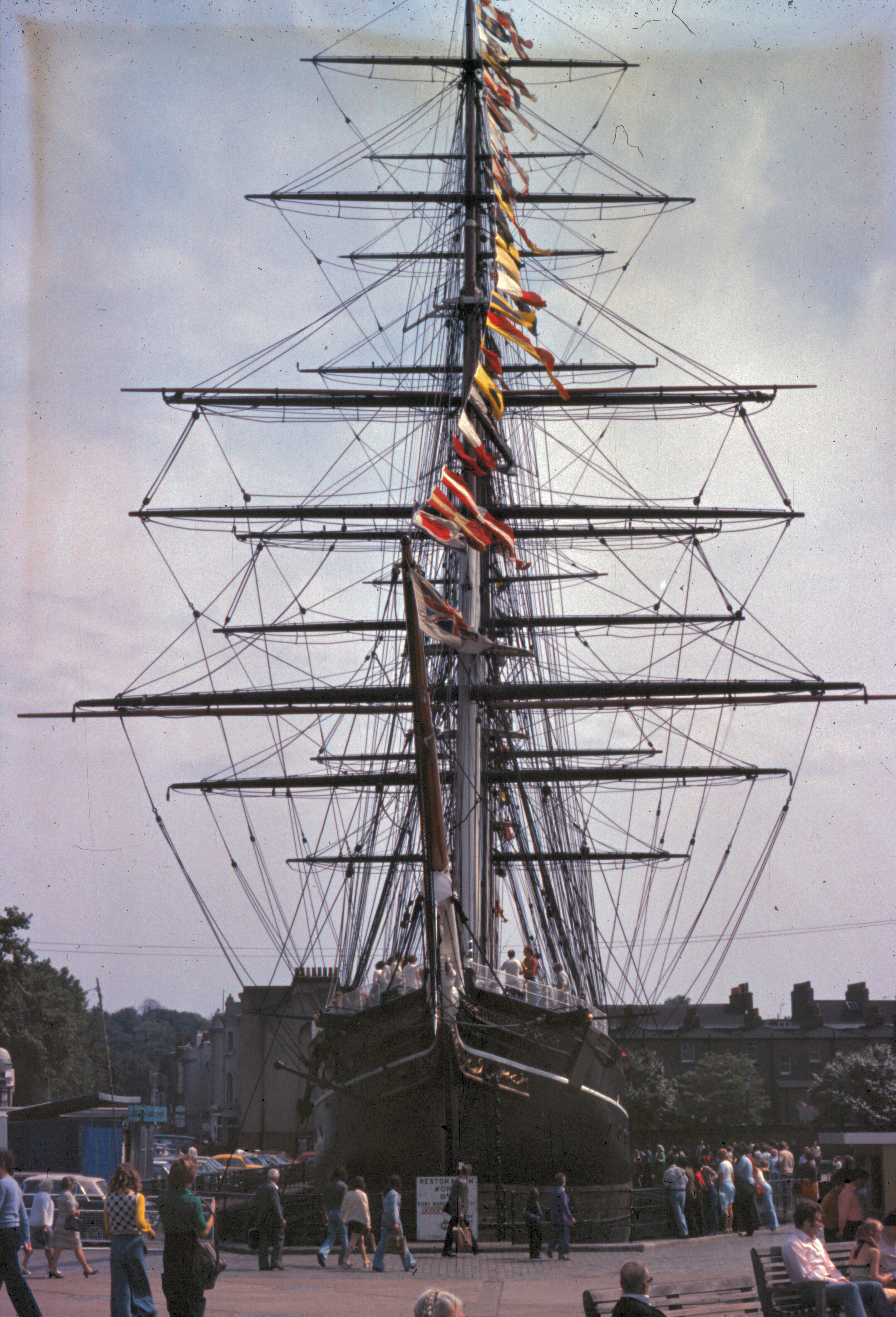 This photo was taken in September 1997.